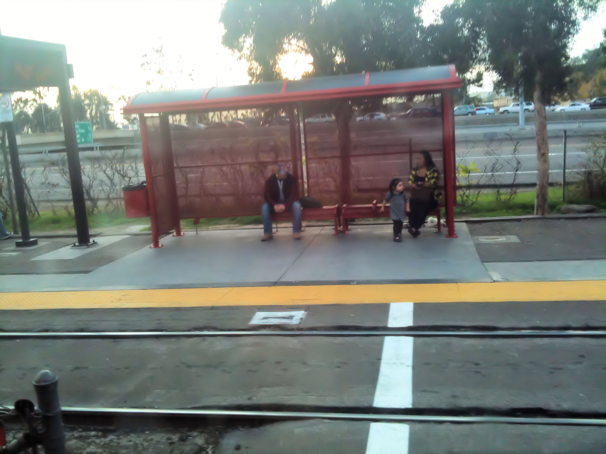 H St Trolley station